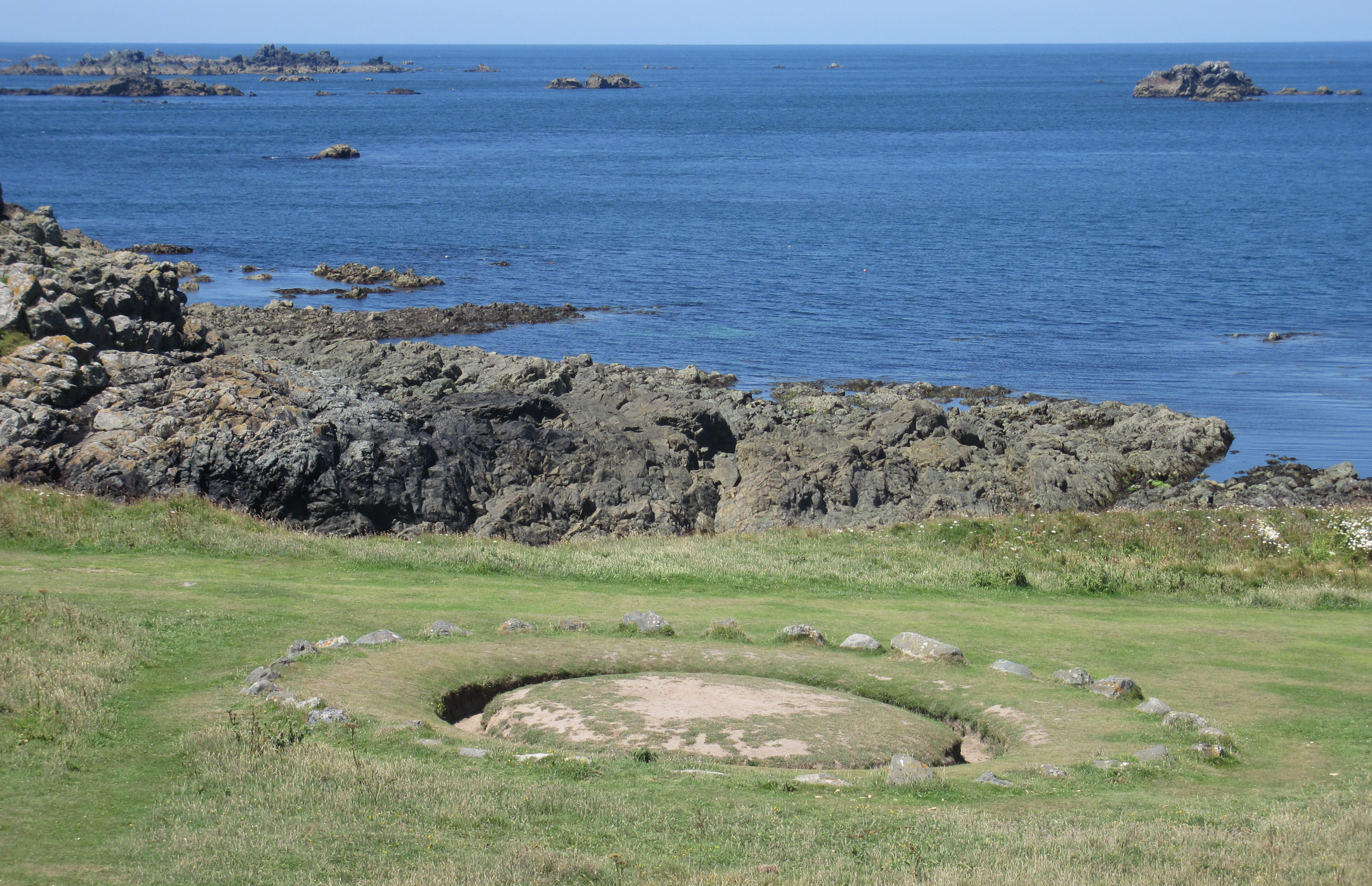 Guernsey, June-July 2011: Table des Pions (aka Fairy Ring) at Pleinmont in Torteval